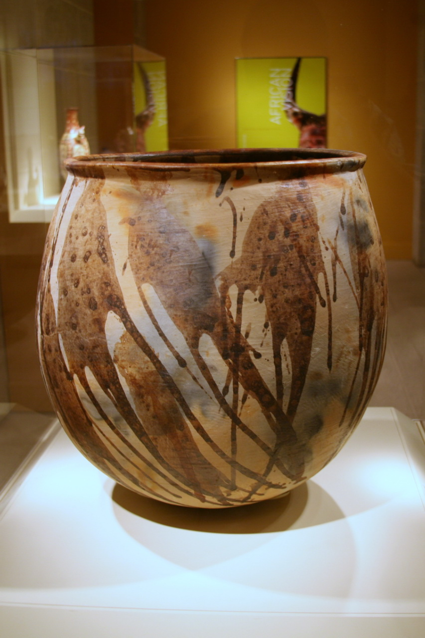 Jar, Chewa peoples, Lilongwe area, Malawi, Late 20th century, Ceramic, resin This large ovoid vessel was handbuilt by a Chewa woman and fired at a low temperature. The potter achieved the aesthetically vibrant surface by splashing a vegetable decoction on the body immediately after firing. The dark spots were caused by firing the jar in a kiln with reduced oxygen. Although the dark spots were unintentional, they add to the pot's aesthetic effectiveness. These vessels are typical of pottery found throughout Africa that function as containers for foodstuffs. Chewa women keep such vessels near the cooking area and used them to store locally brewed maize beer (kuchasu). Kuchasu is consumed before traditional ceremonies of the Gule Wamkulu (Great Dance), which is performed at funerals and initiations. (National Museum of African Art)